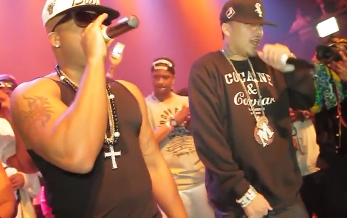 red cafe performing in 2012, a screenshot from the channel Shakedowngermany on June 5, 2012.